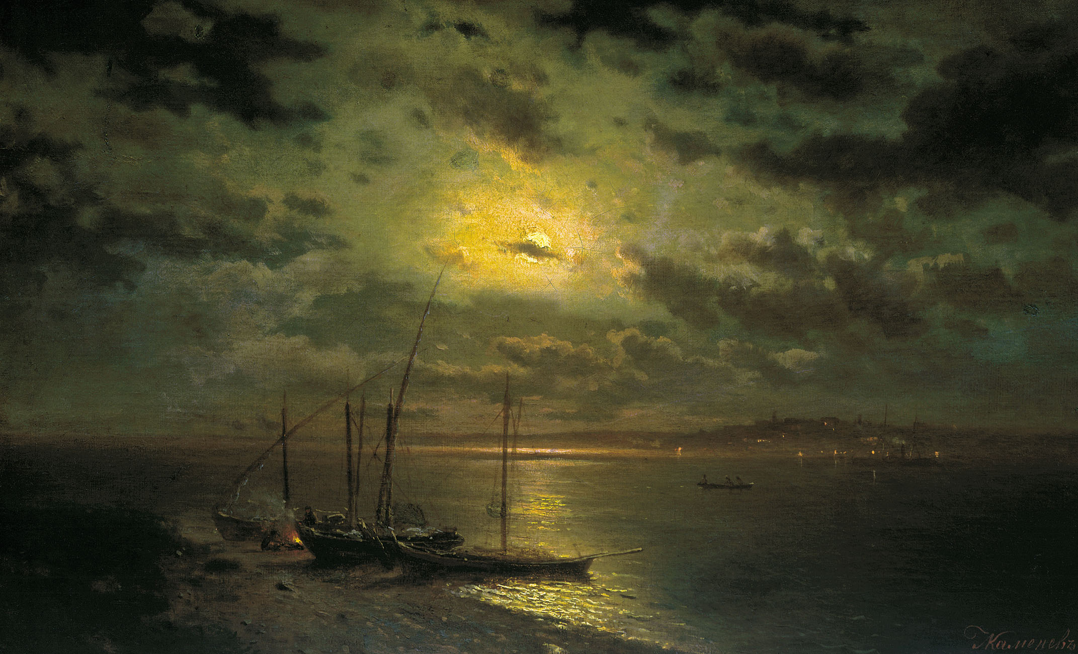 Moonlit Night on the River by Lev Kamenev.